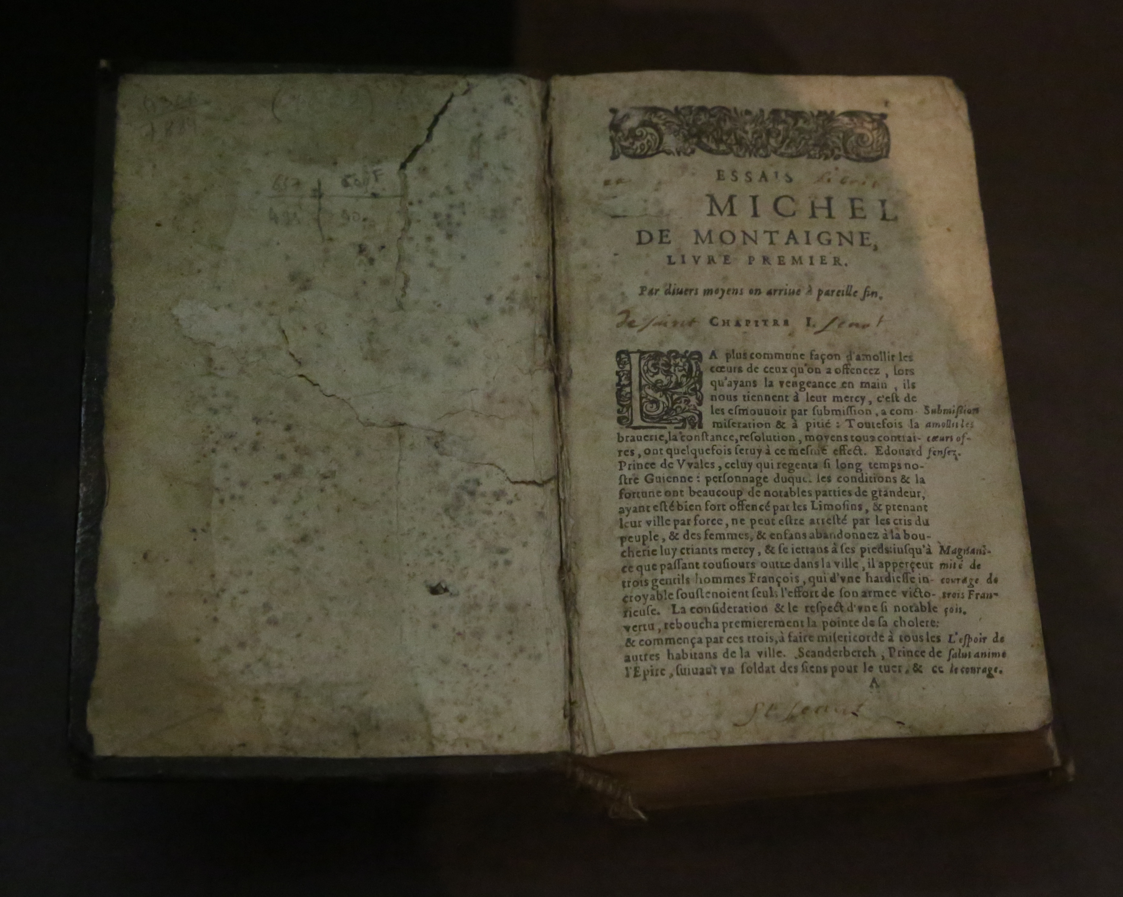 Essais, book of Michel de Montaigne.